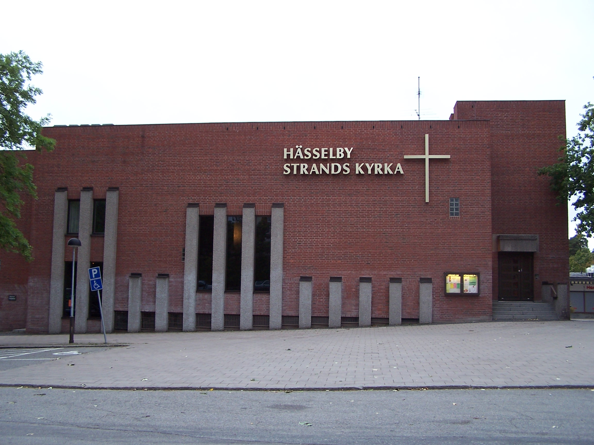 Hässelby Strand church, Stockholm, Sweden - Exterior